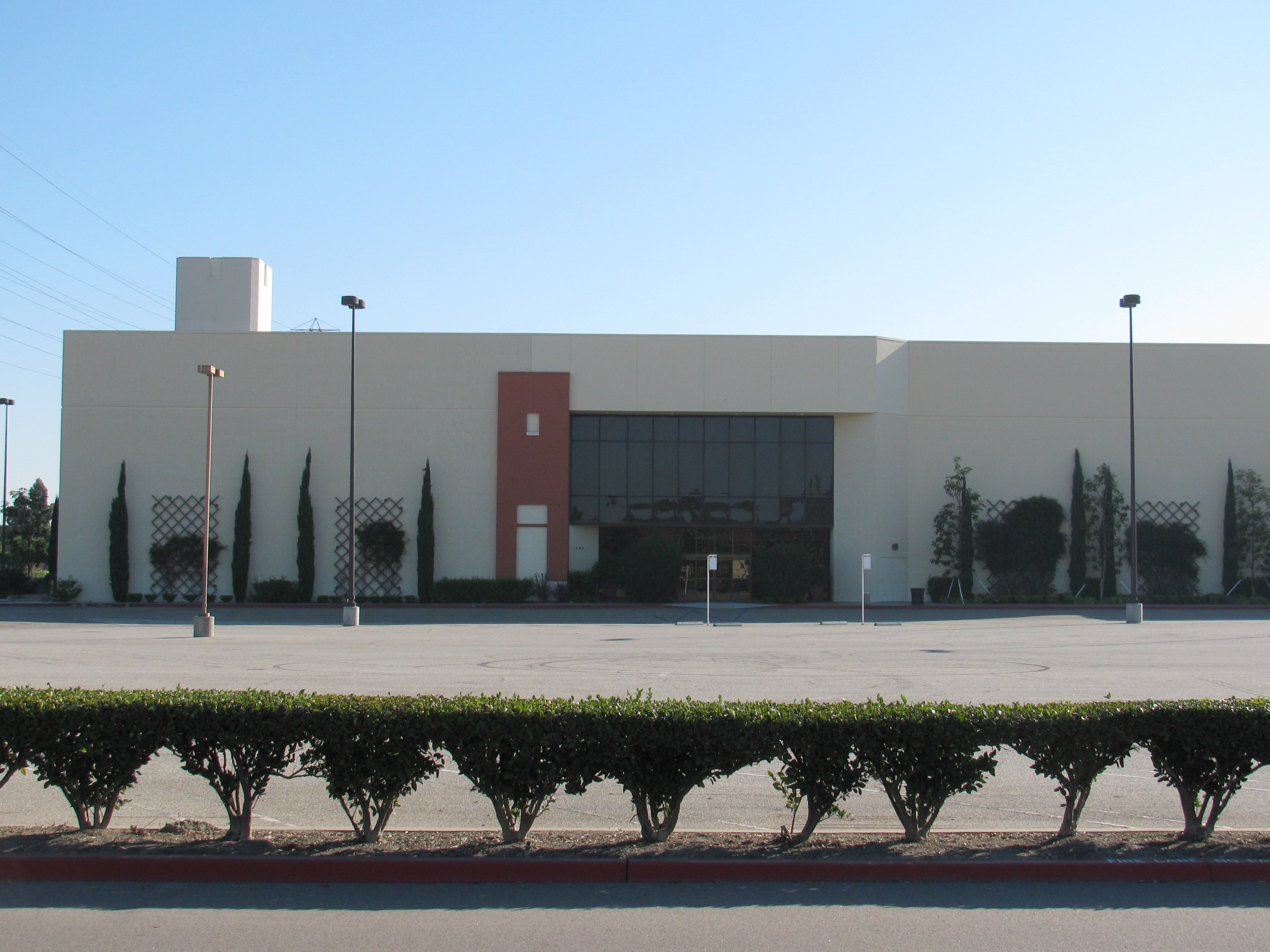 Vacant Mervyns Store at Bella Terra shopping center in Huntington Beach, California. The store opened in 1986 as part of an expansion of the former enclosed Huntington Center. The store closed in late 2008 along with the rest of the chain and remains vacant.